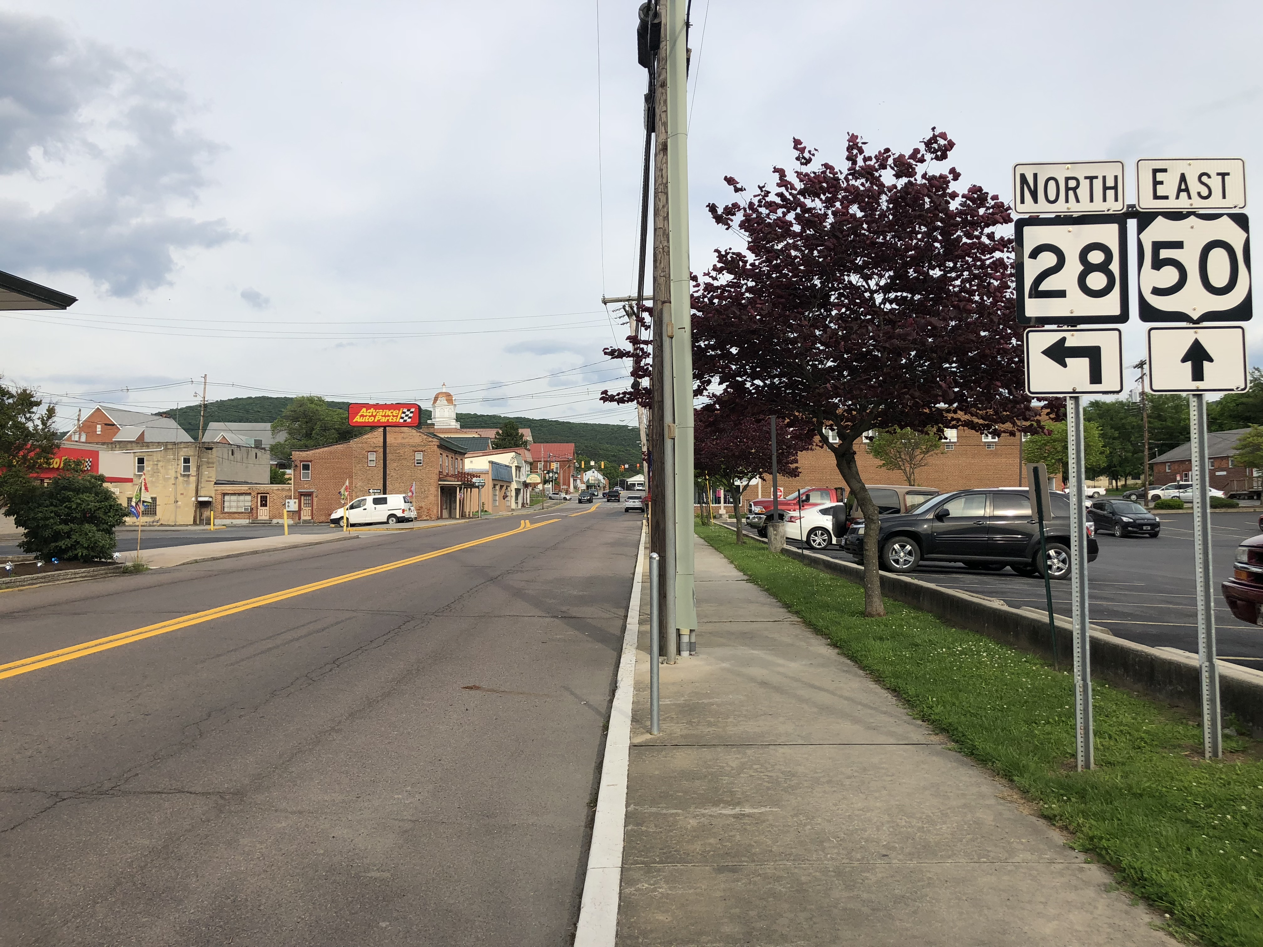 View east along U.S. Route 50 and north along West Virginia State Route 28 (Main Street/Northwestern Pike) at Bolton Street in Romney, Hampshire County, West Virginia